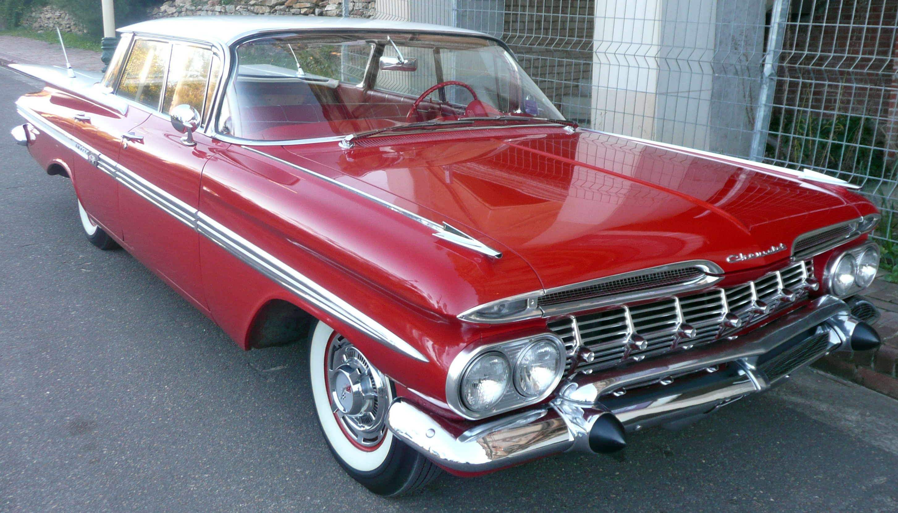 1959 Chevrolet Impala sedan. Photographed in Loftus, New South Wales, Australia.